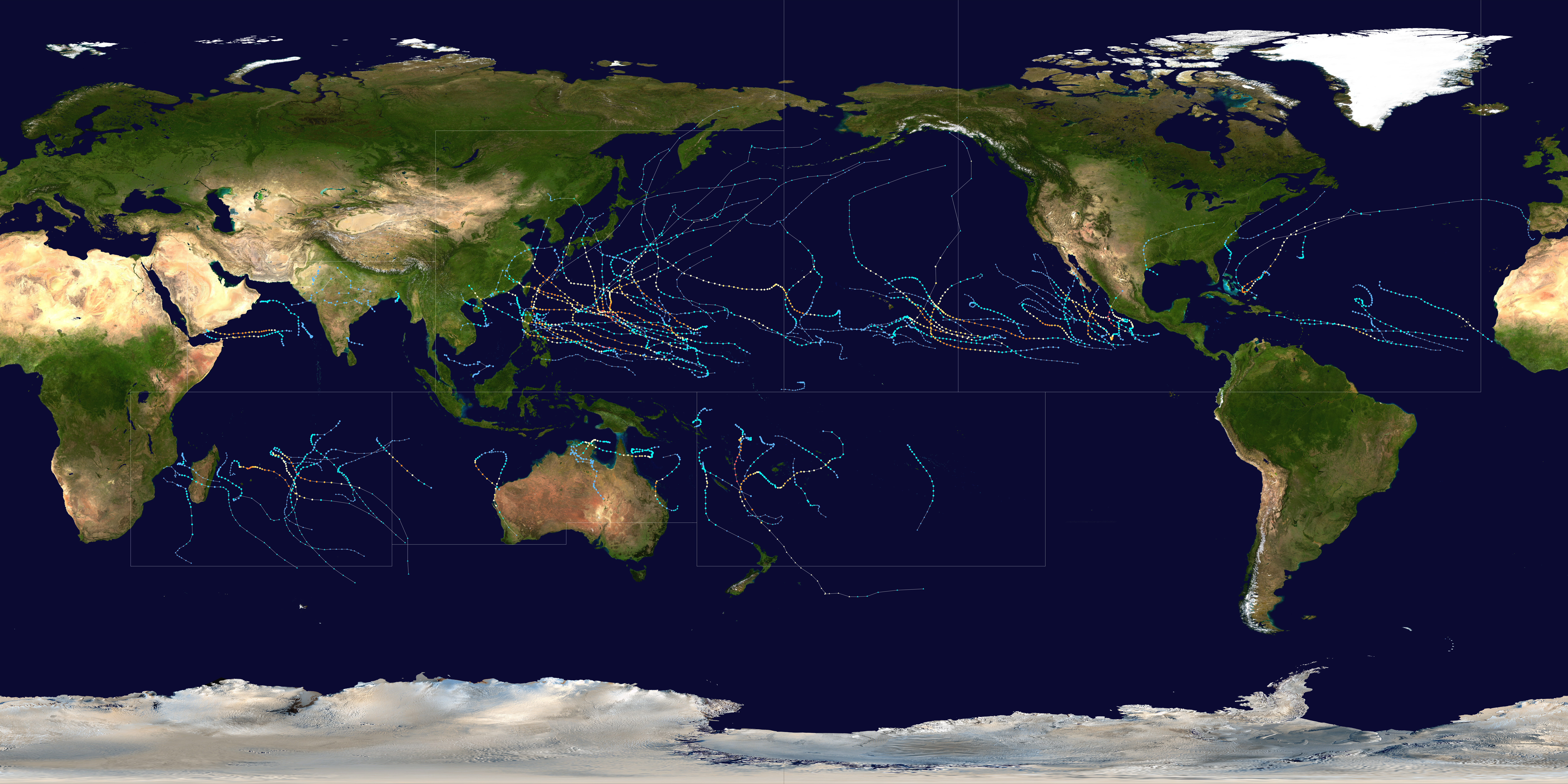 Tropical cyclones worldwide in 2015